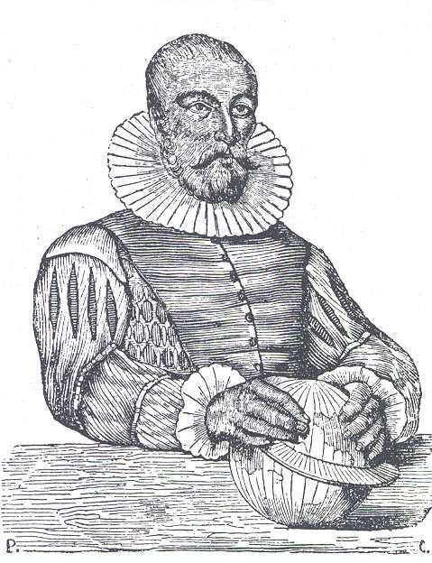 Image of Portuguese mathematician Pedro Nunes in Panorama magazine (1843); Lisbon, Portugal.